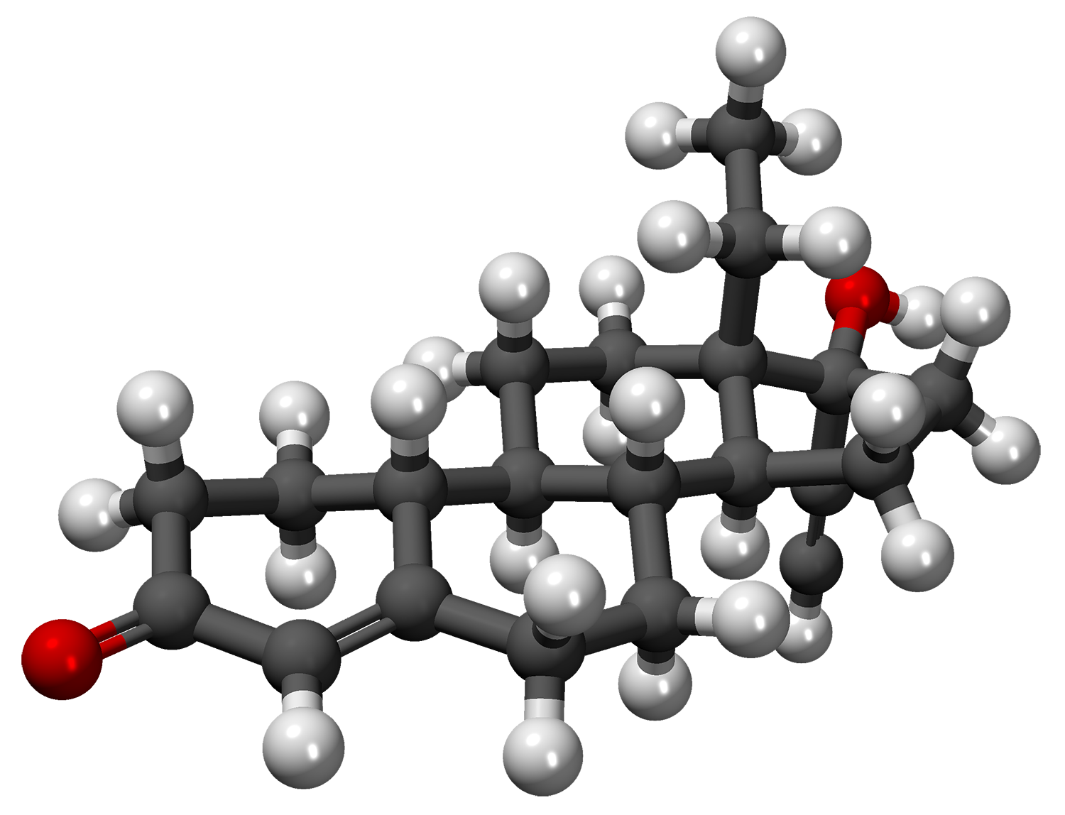 Ball-and-stick model of the Levonorgestrel molecule C21H28O2. Model constructed using ACD/ChemSketch and Accelrys DS Visualizer. 3D structure verified with ChemSpider.